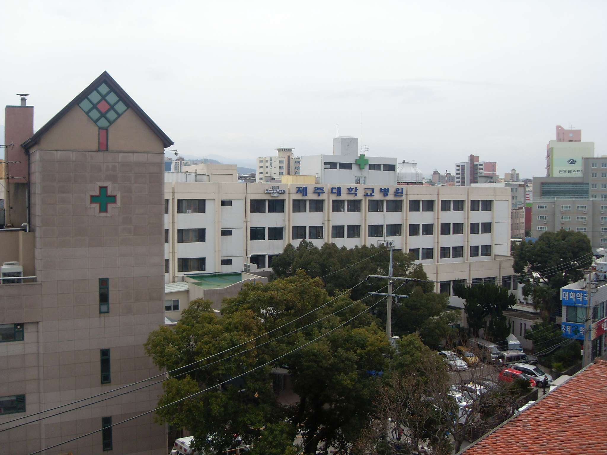 Old Jeju National University Hospital